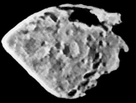 Asteroid 2867 Šteins was first imaged by ESA's Rosetta spacecraft using the OSIRIS camera on 5 September 2008. Image stacking and processing by amateur astrophotographer Ted Stryk has enhanced the shadows in order to emphasise the difference between bright crater rims and their shadowed floors. However, this technique can also create some artifacts, such as the illusion of boulders protruding from the surface, that are not present in the raw data. In total, over 40 craters have been identified on the surface of Steins, the largest appearing at the ‘top’ of this frame being the 2 km-wide crater named Diamond. Craters on Steins are named after gems, following Stein’s appearance as a diamond shape.